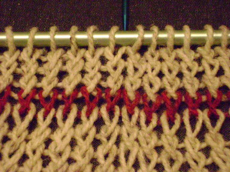 Knitted fabric showing a single red course of plaited stitches. The five stitches to the right of the blue needle at the top were knit into the back loop to twist the stitches one way; the five to the left of the same needle were knit by wrapping the yarn the wrong way around the needle and twist in the other direction.